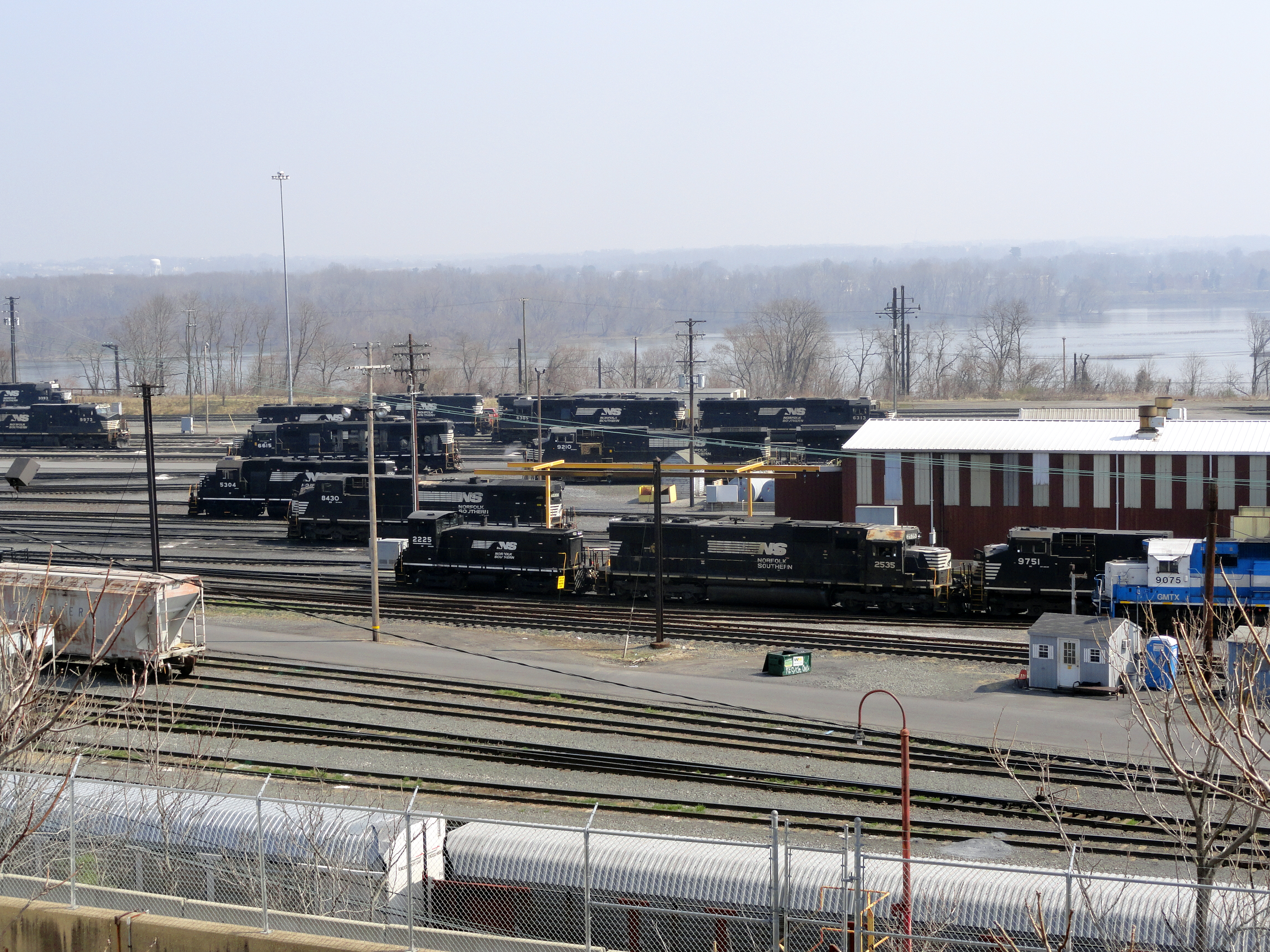 View of diesel locomotive storage and service area at Enola Yard near Harrisburg, Pennsylvania, with NS and GMTX locomotives. An eastbound train with autorack cars is in the foreground. The Susquehanna River is in the background.